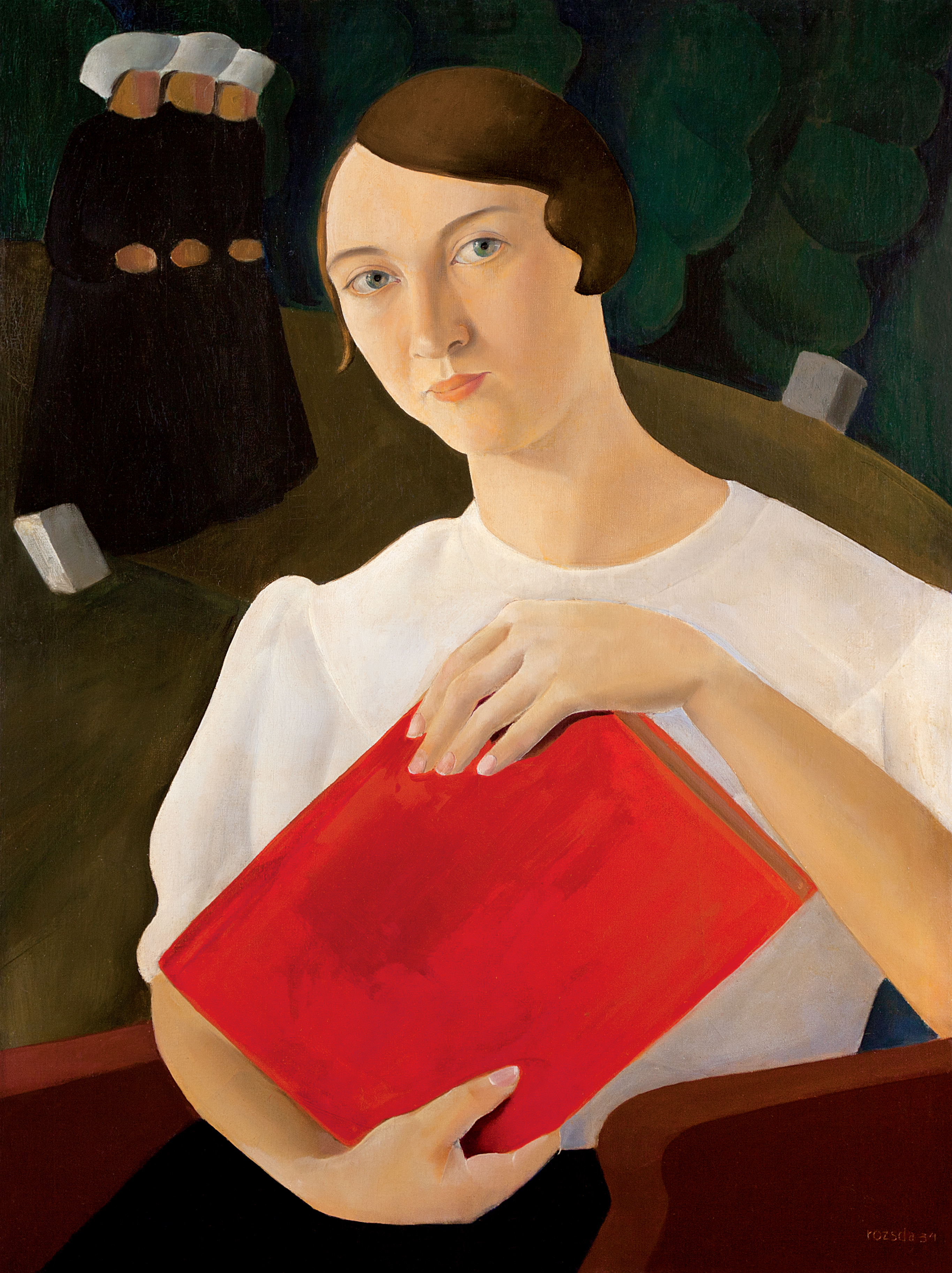 painting